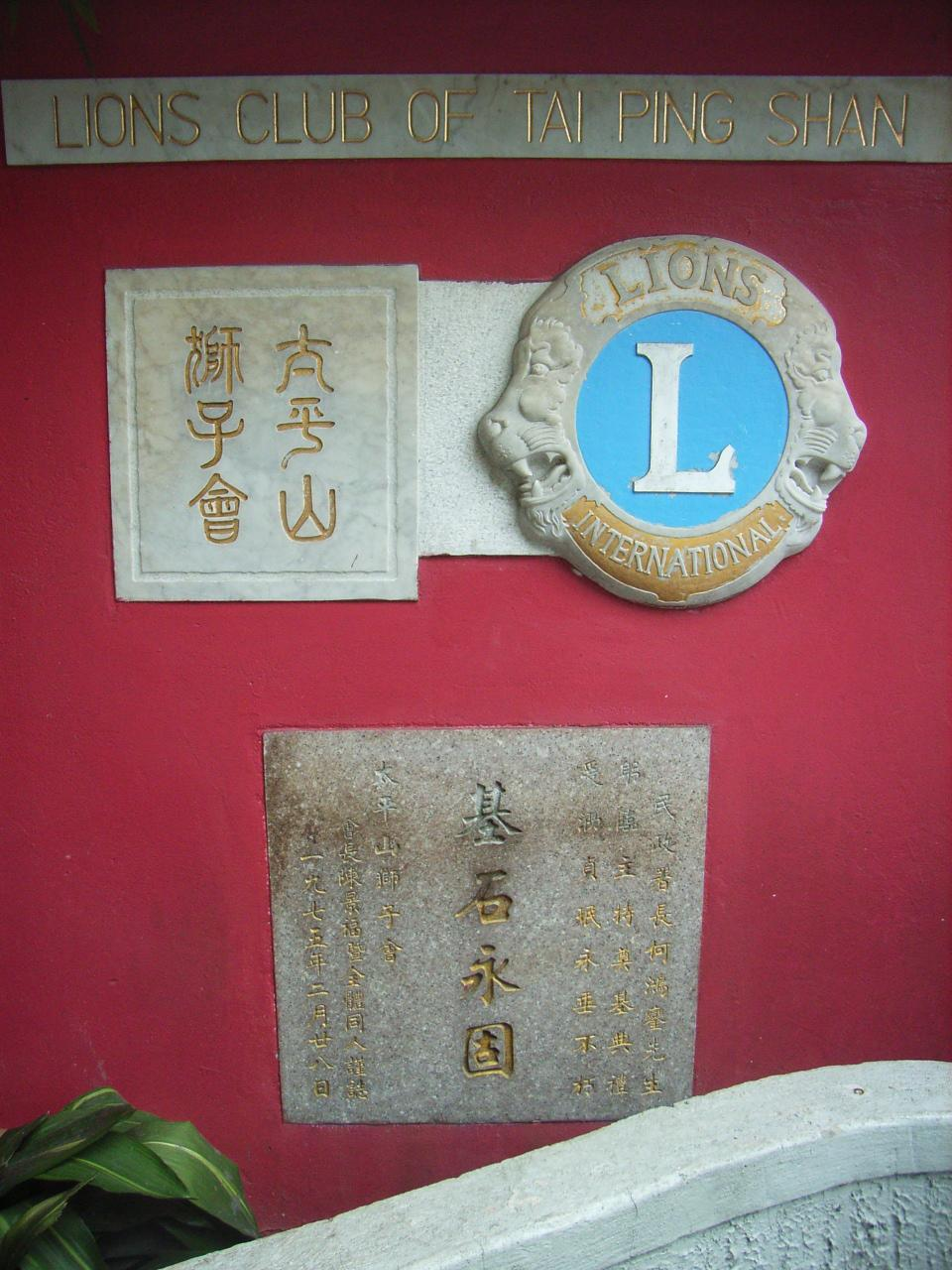 Lions Club of Tai Ping Shan at the Peak, Tai Ping Shan, Hong Kong 太平山獅子會 國際獅子會總會中國港澳三零三區 其中一個屬會